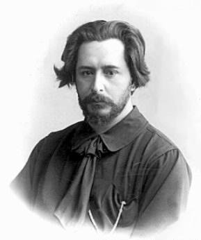 Leonid Andreev